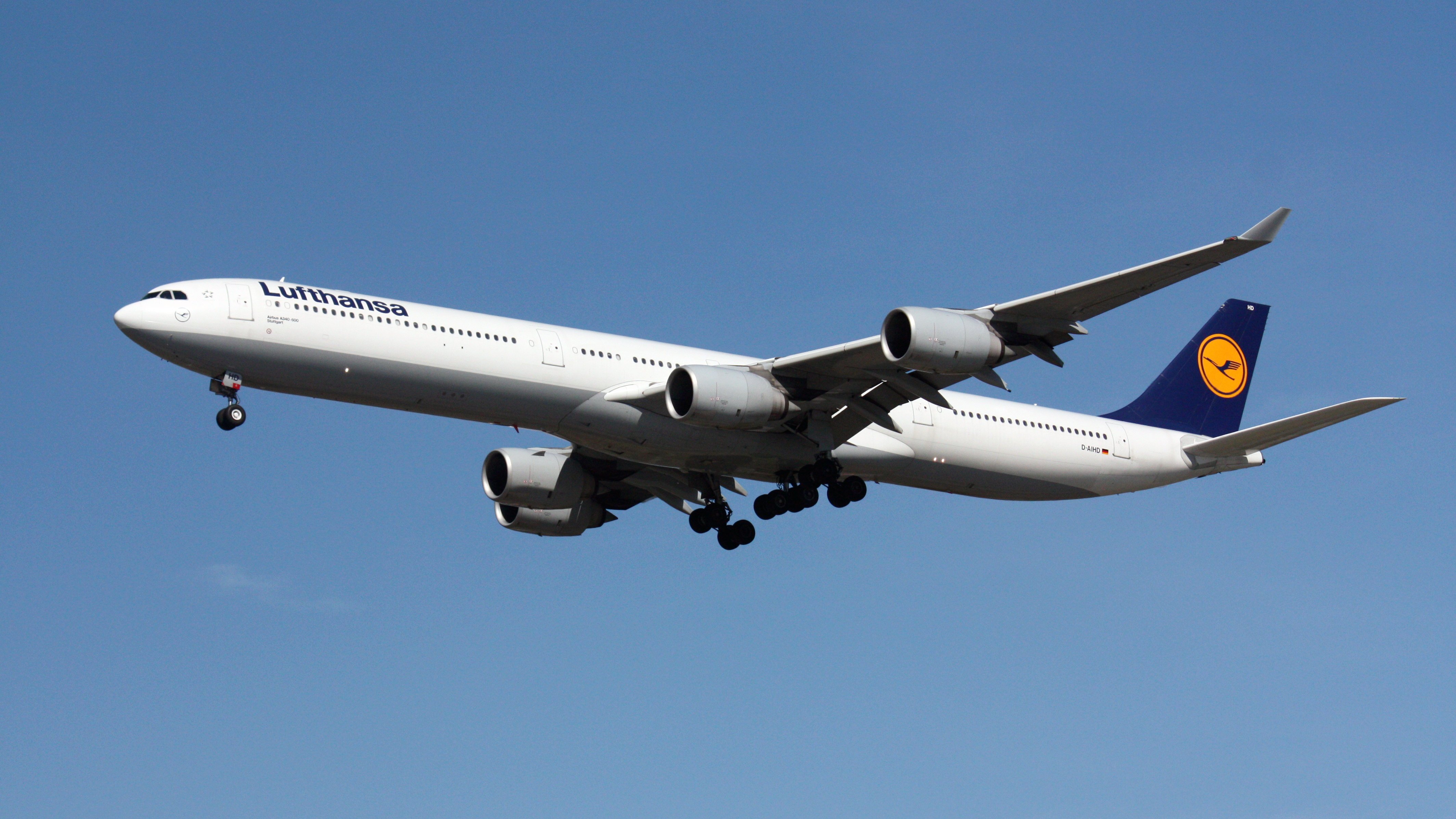 A Lufthansa Airbus A340-642 landing at Vancouver International Airport